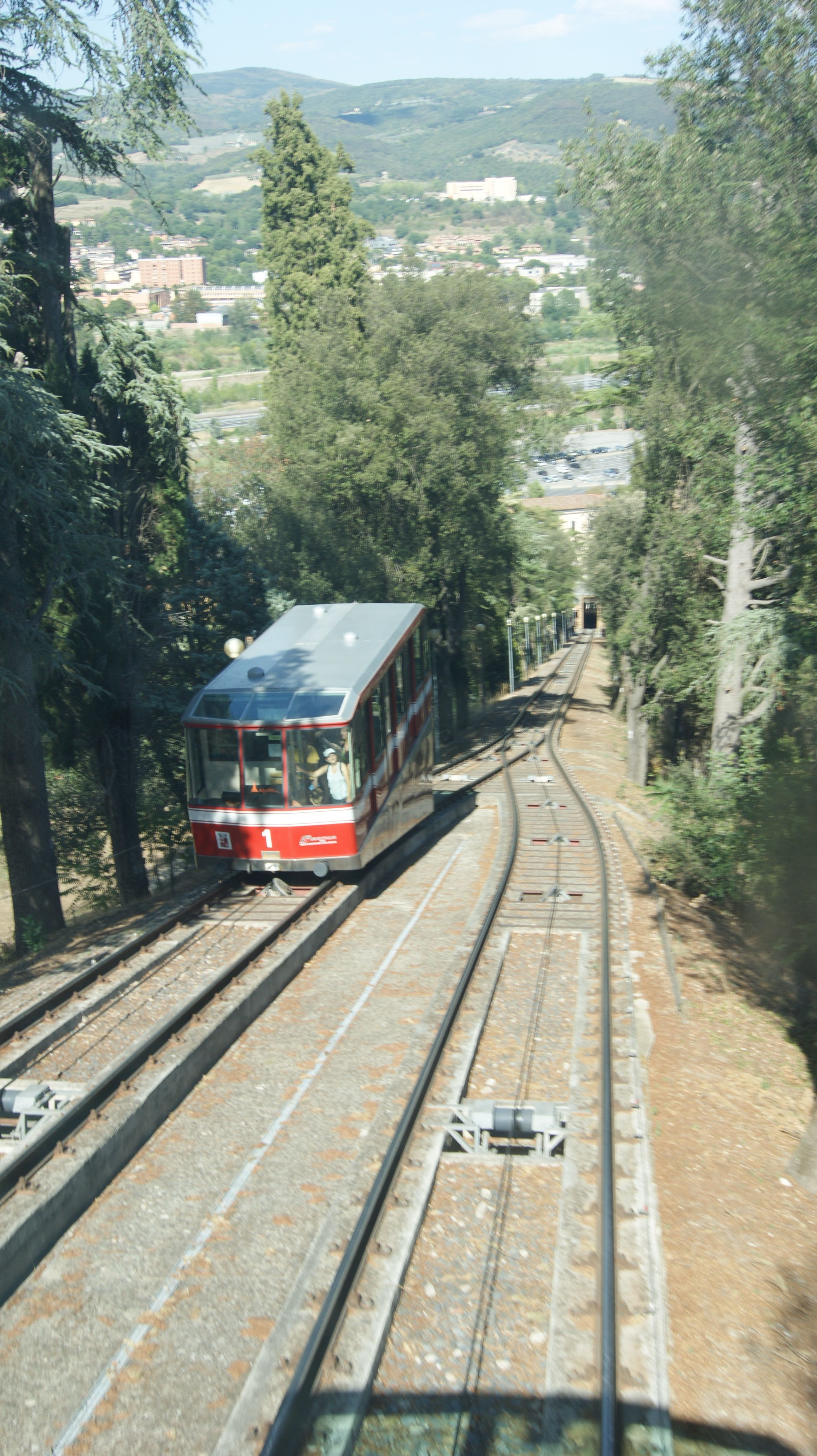 Cable car Orvieto, Italy.